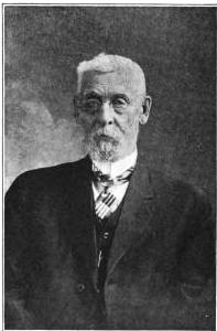 William S Pitts....Fairbairn, Robert Herd. History of Chickasaw and Howard counties, Iowa, Volume 1. S.J. Clarke Publishing Company, 1919, p. 228-29.